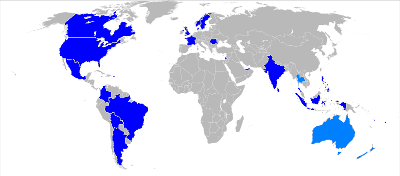 Earth Hour 2009 participants